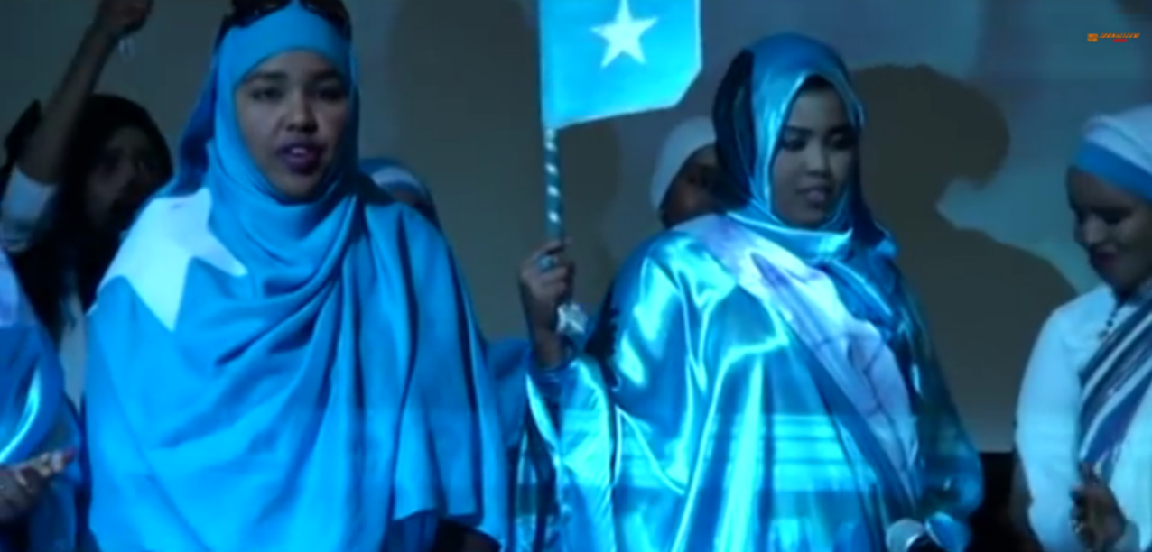 A Khatumo State launch ceremony in Dubai (2013).